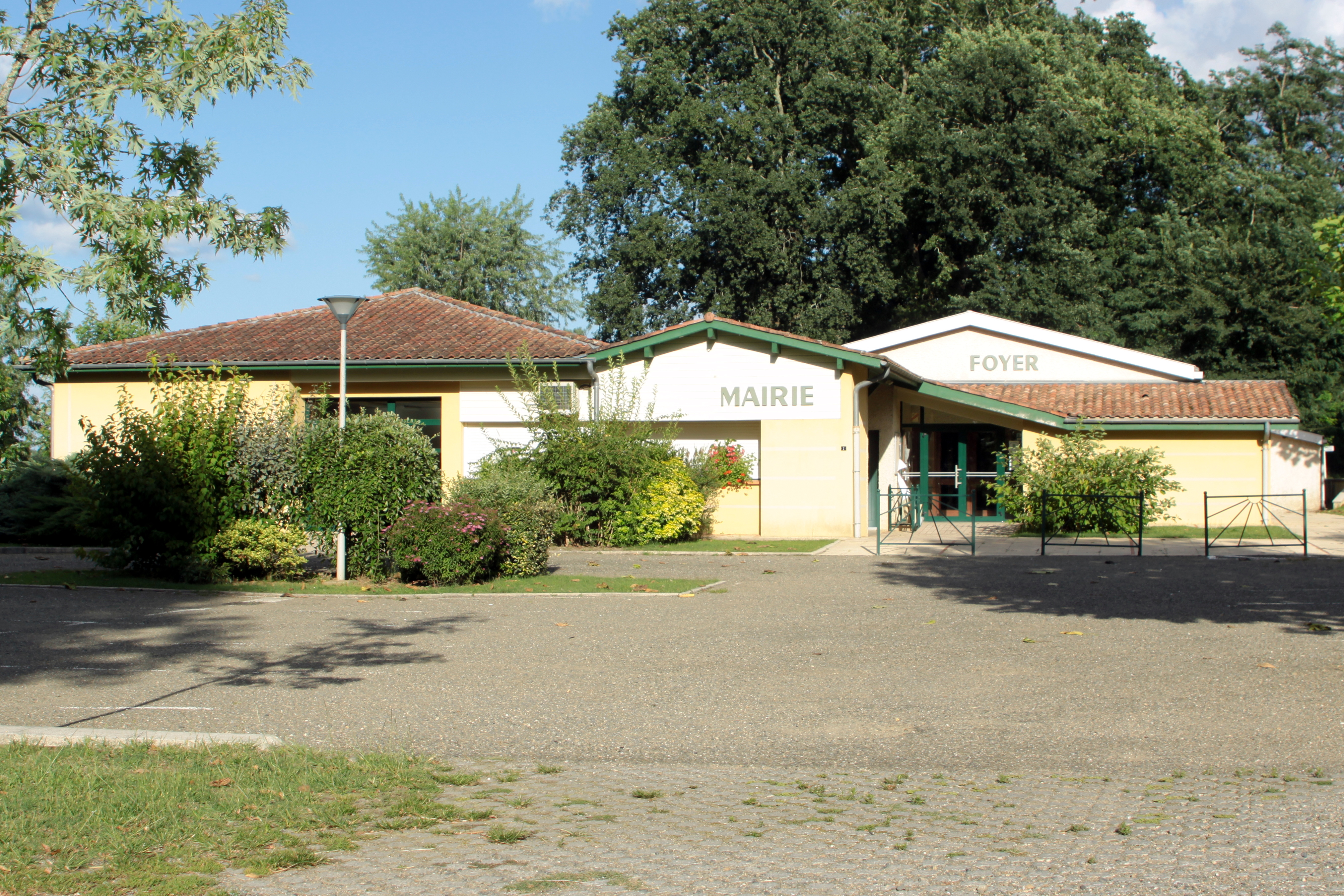 Townhall of Lucbardez-et-Bargues